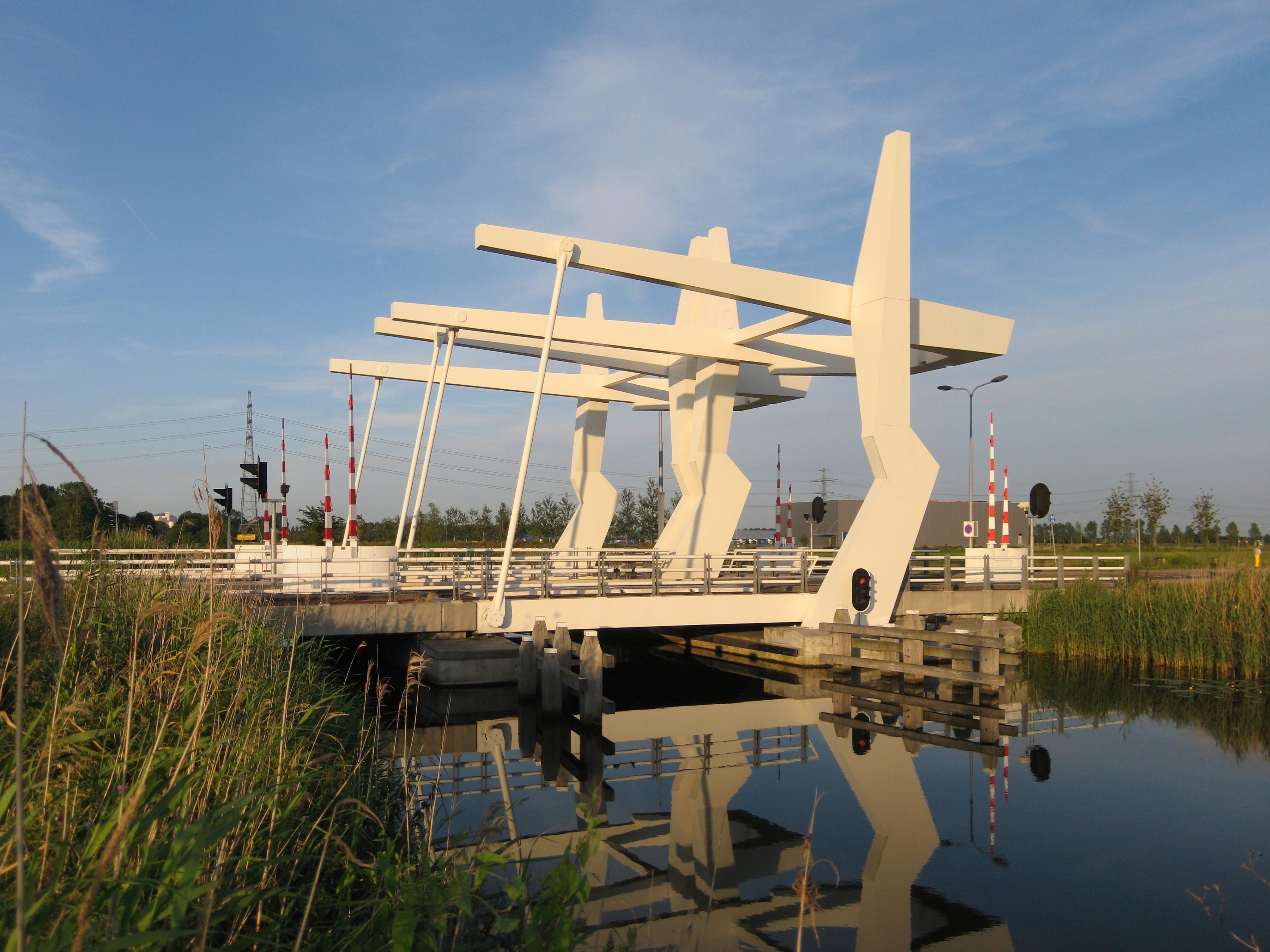 The Westerbrug, a road bridge over the Hoendiep in the Dutch city of Groningen.